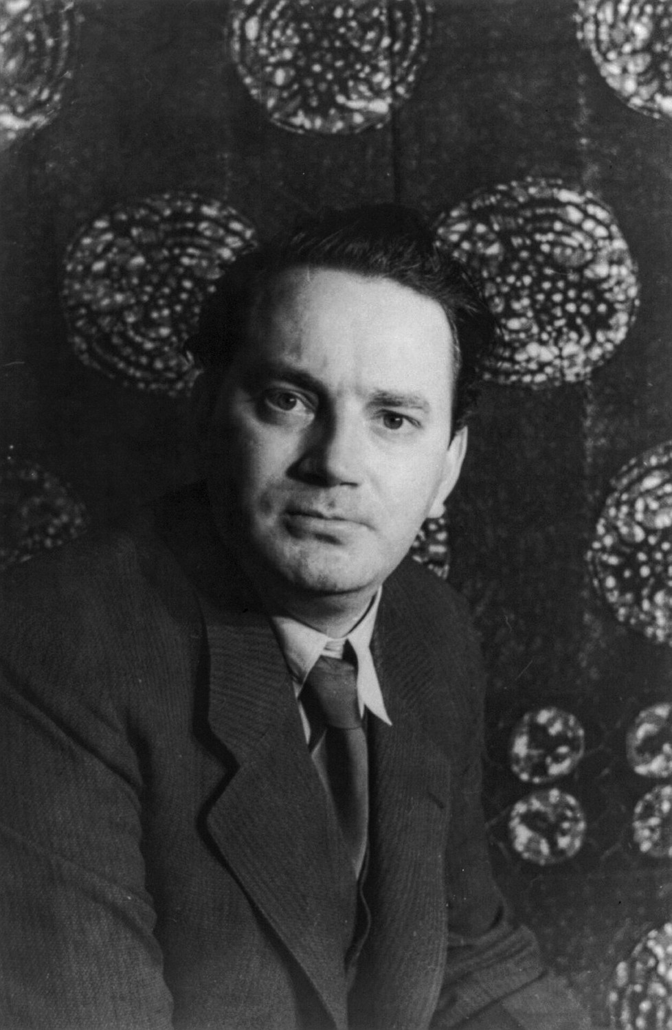 Thomas Wolfe